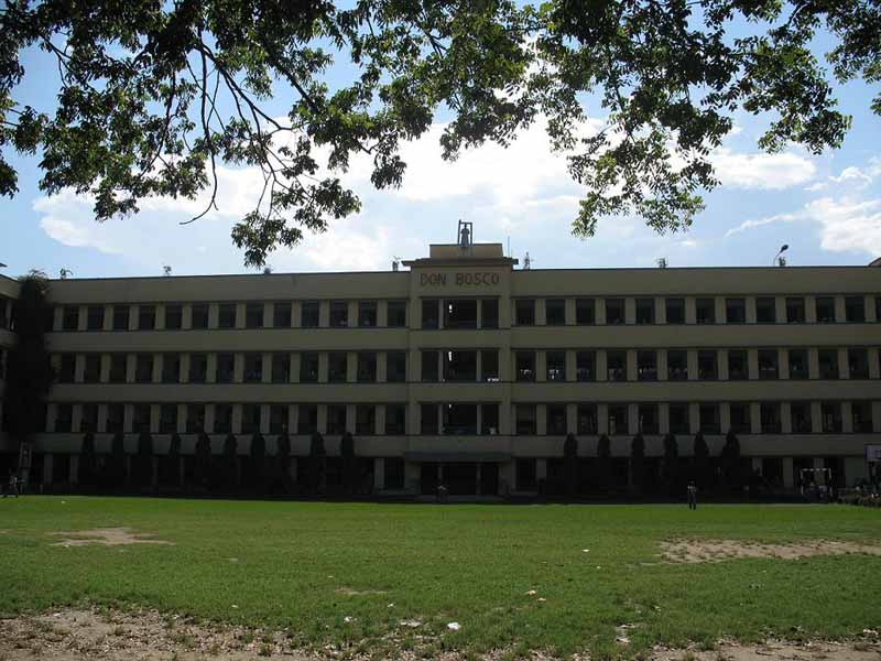 Don Bosco Liluah School Building